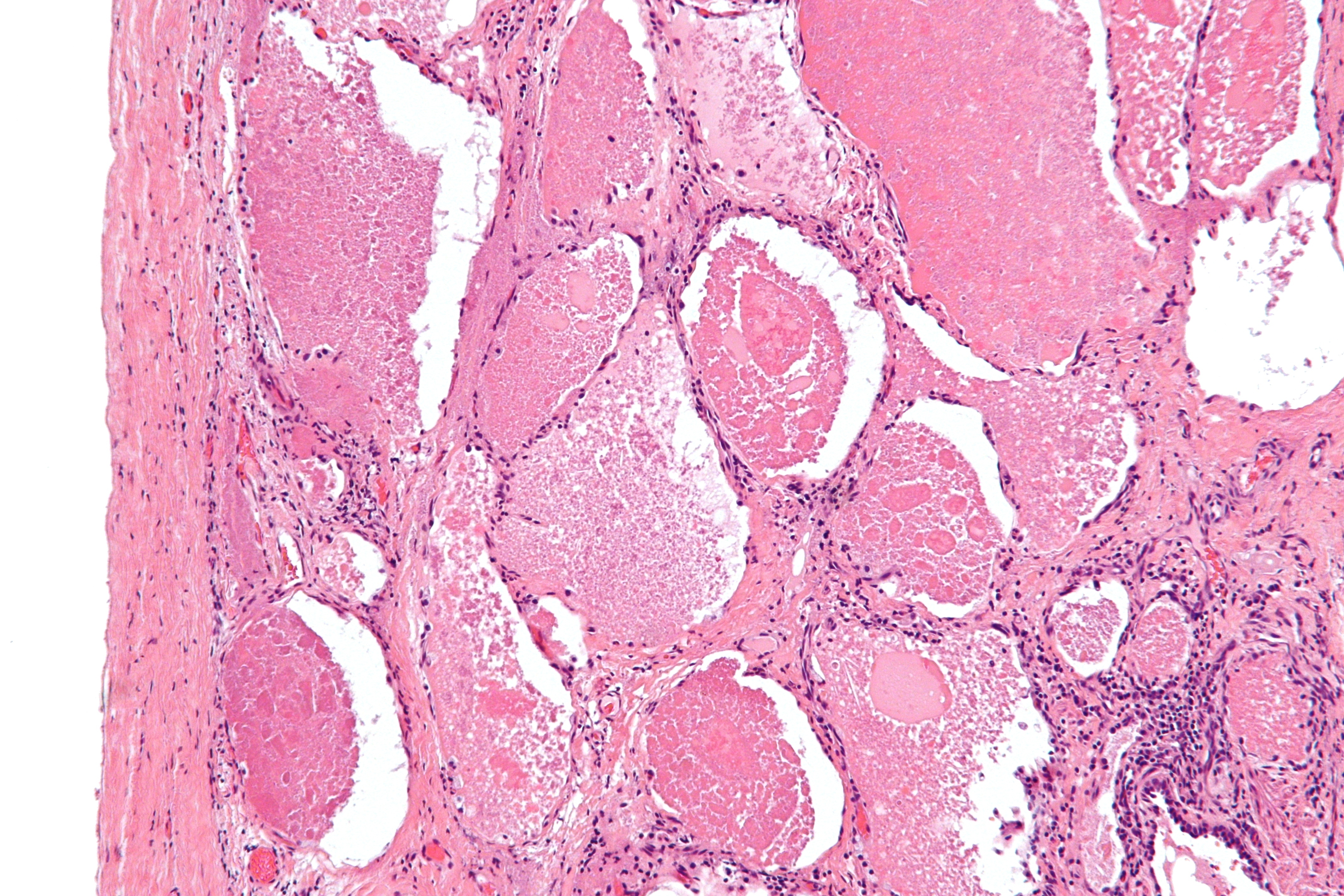 Intermediate magnification micrograph of pulmonary alveolar proteinosis. Lung. H&E stain. The images show the characteristic airspace filling with focally dense hyaline globs, known as "chatter" or "dense bodies". The histomorphological differential diagnosis includes: Pneumocystis pneumonia. Pulmonary edema. Related images Low mag. Intermed. mag. High mag. Very high mag.